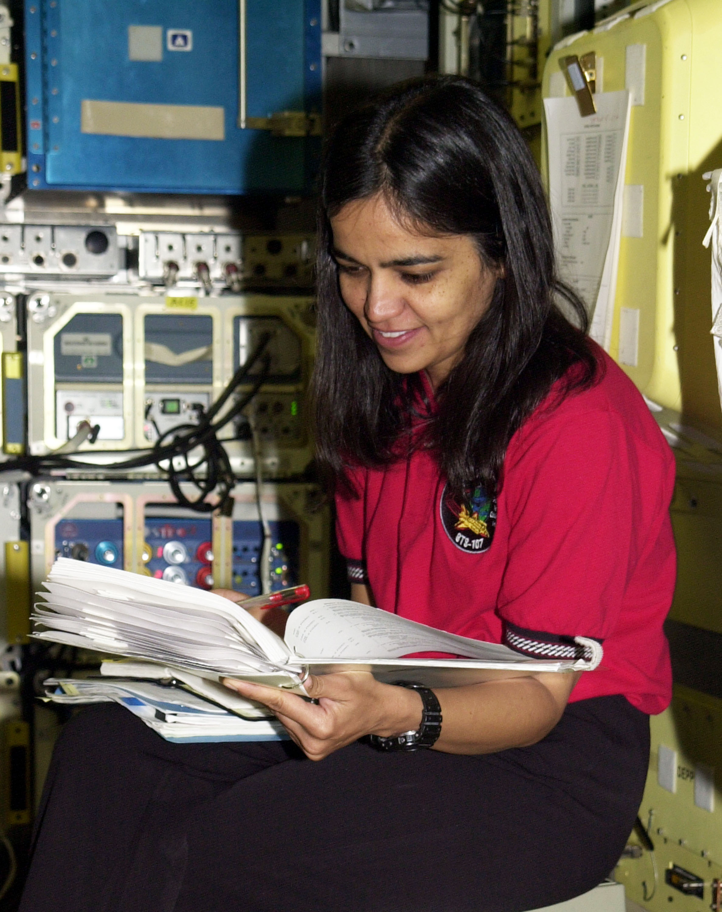 KENNEDY SPACE CENTER, FLA. -- STS-107 Mission Specialist Kalpana Chawla scans paperwork for equipment at SPACEHAB, Cape Canaveral, Fla., during crew training. STS-107 is a research mission. The primary payload is the first flight of the SHI Research Double Module (SHI/RDM). The experiments range from material sciences to life sciences (many rats). Also part of the payload is the Fast Reaction Experiments Enabling Science, Technology, Applications and Research (FREESTAR) that incorporates eight high priority secondary attached shuttle experiments: Mediterranean Israeli Dust Experiment (MEIDEX), Shuttle Ozone Limb Sounding Experiment (SOLSE-2), Student Tracked Atmospheric Research Satellite for Heuristic International Networking Experiment (STARSHINE), Critical Viscosity of Xenon-2 (CVX-2), Solar Constant Experiment-3 (SOLOCON-3), Prototype Synchrotron Radiation Detector (PSRD), Low Power Transceiver (LPT), and Collisions Into Dust Experiment -2 (COLLIDE-2). STS-107 is scheduled to launch in July 2002 (Photo Release Date: 01/10/2002 )